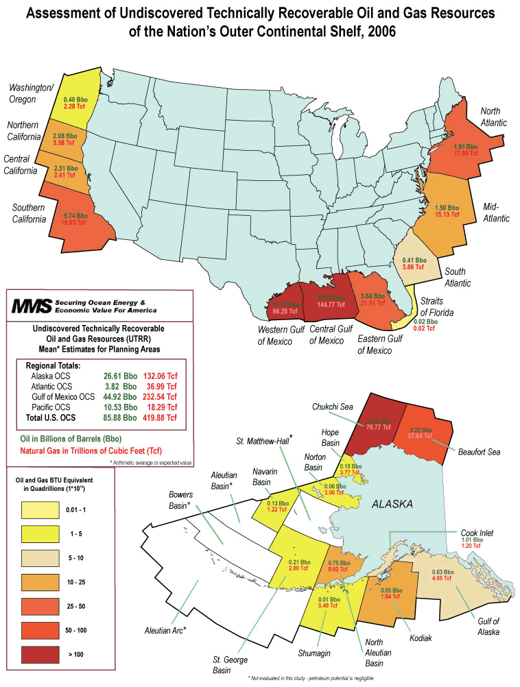 2006 National Assessment Maps of the Undiscovered Technically Recoverable Oil & Gas Resources